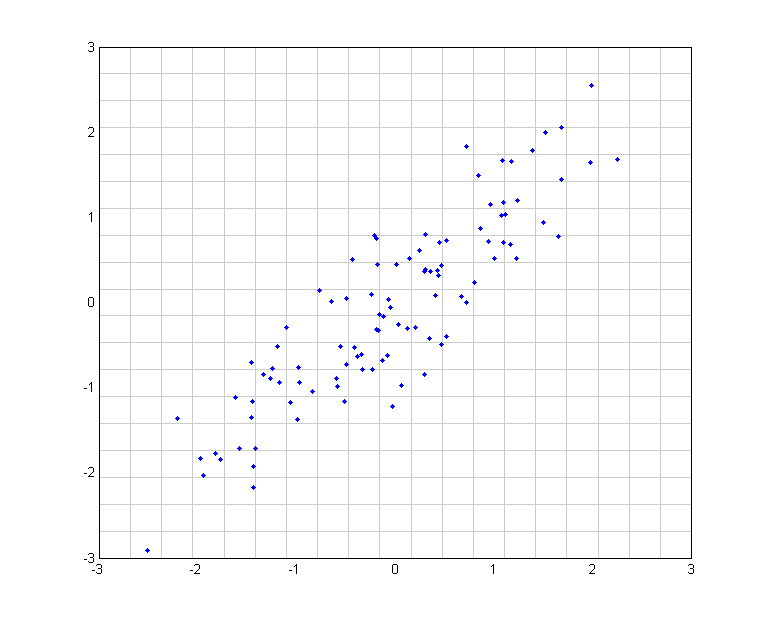 Linear PCA